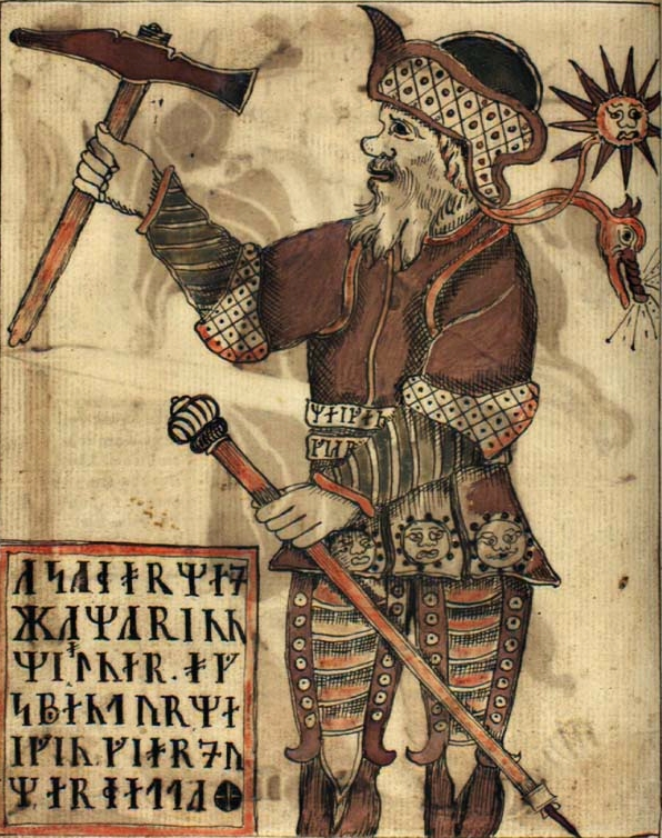 A Norse mythology image from the 18th century Icelandic manuscript "NKS 1867 4to", now in the care of the Danish Royal Library.